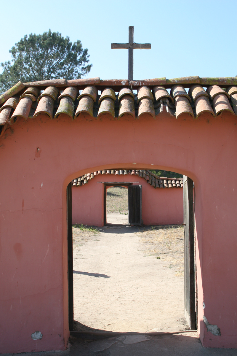 Convento at Purismo mission, Lompoc CA Photo by Doc Searls Category:Images of California